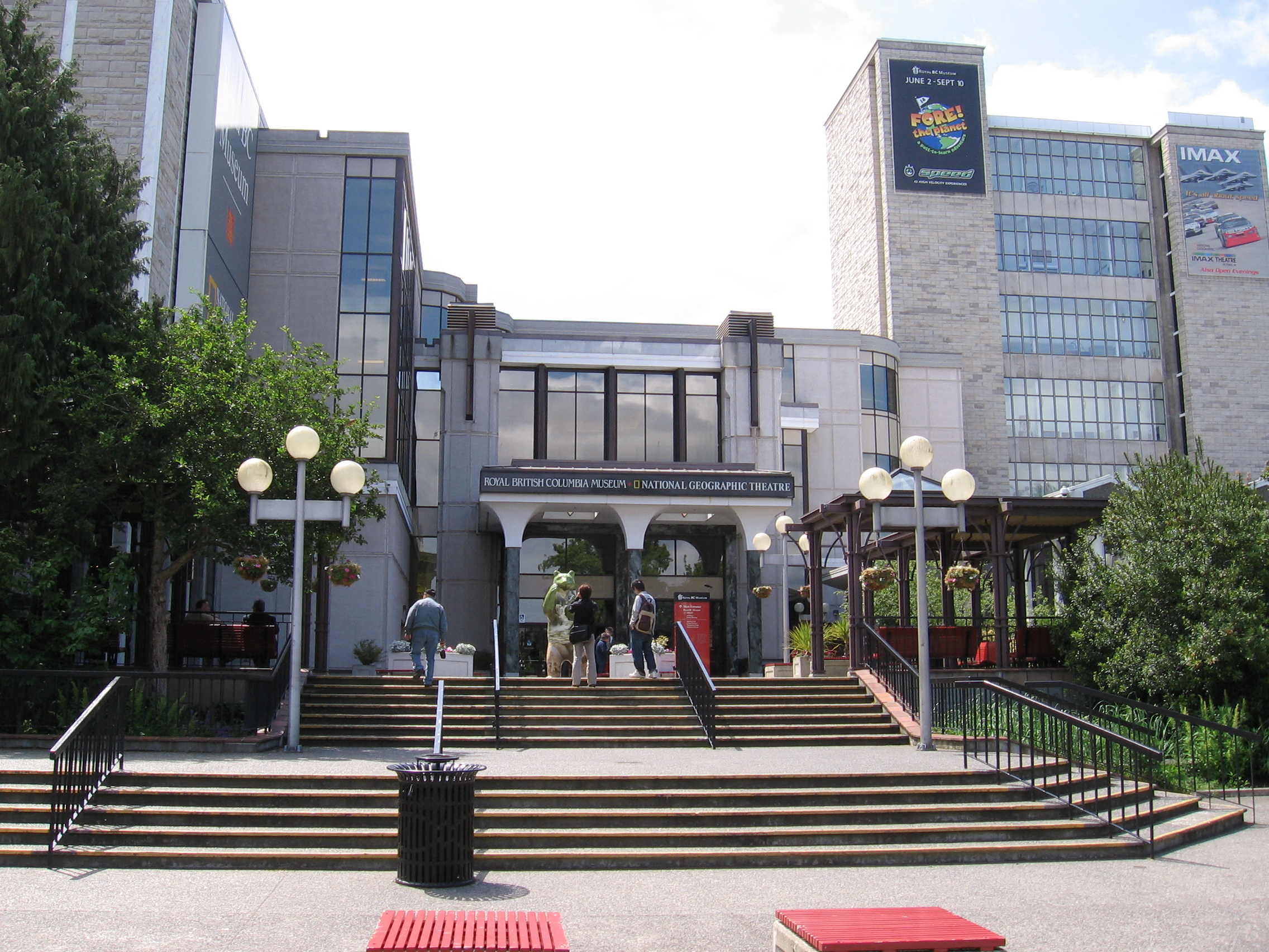 Main entrance the Royal British Columbia Museum